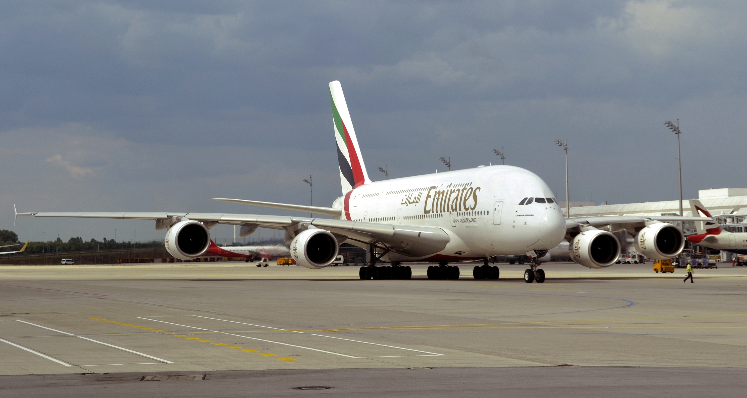 An Emirates Airbus A380 (A6-EDS) in Munich, May 2012.